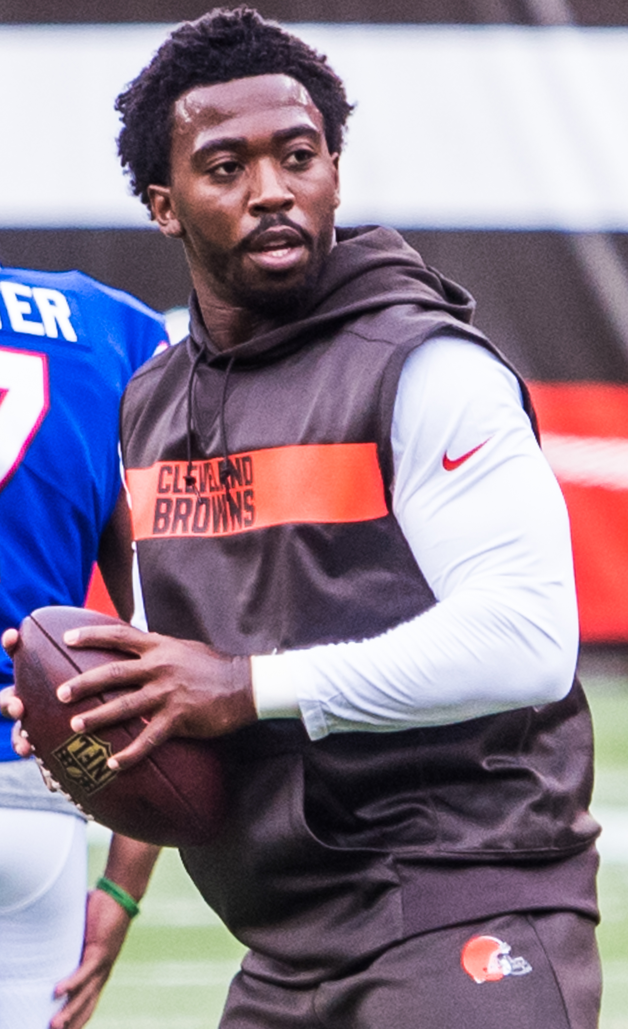 Tyrod Taylor and Baker Mayfield